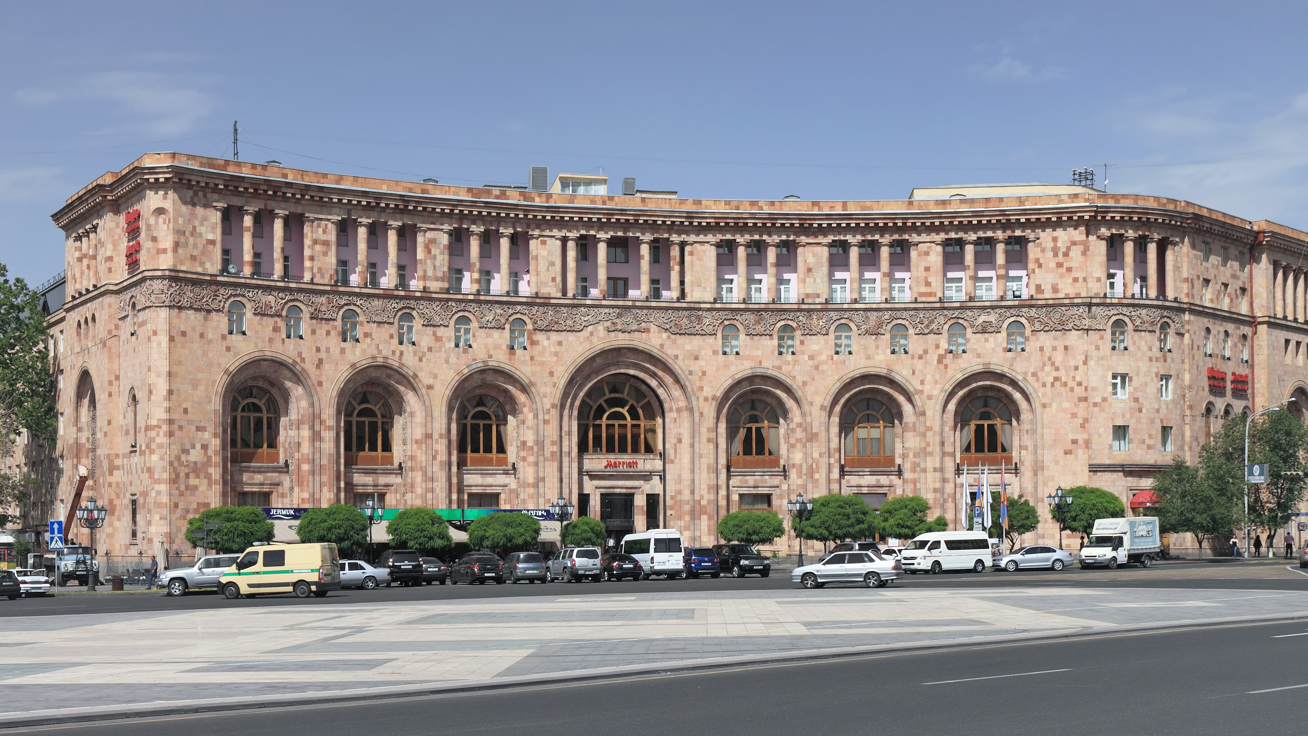 Armenia Marriott Hotel. Yerevan, Armenia.